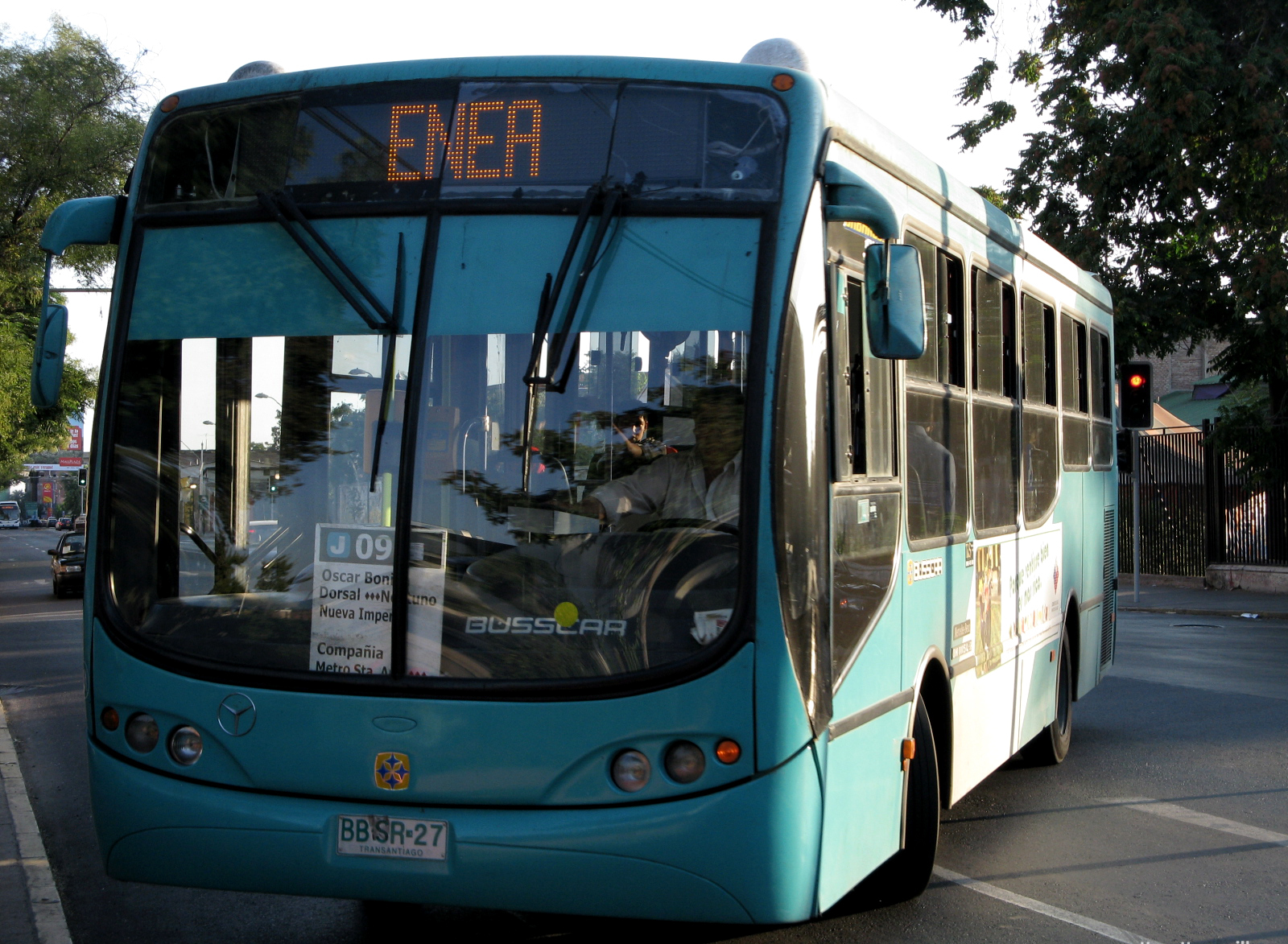 Busscar Urbanuss Pluss bus (reg. BB-SR-27) with Mercedes-Benz chassis in Santiago de Chile, Chile. Transantiago.